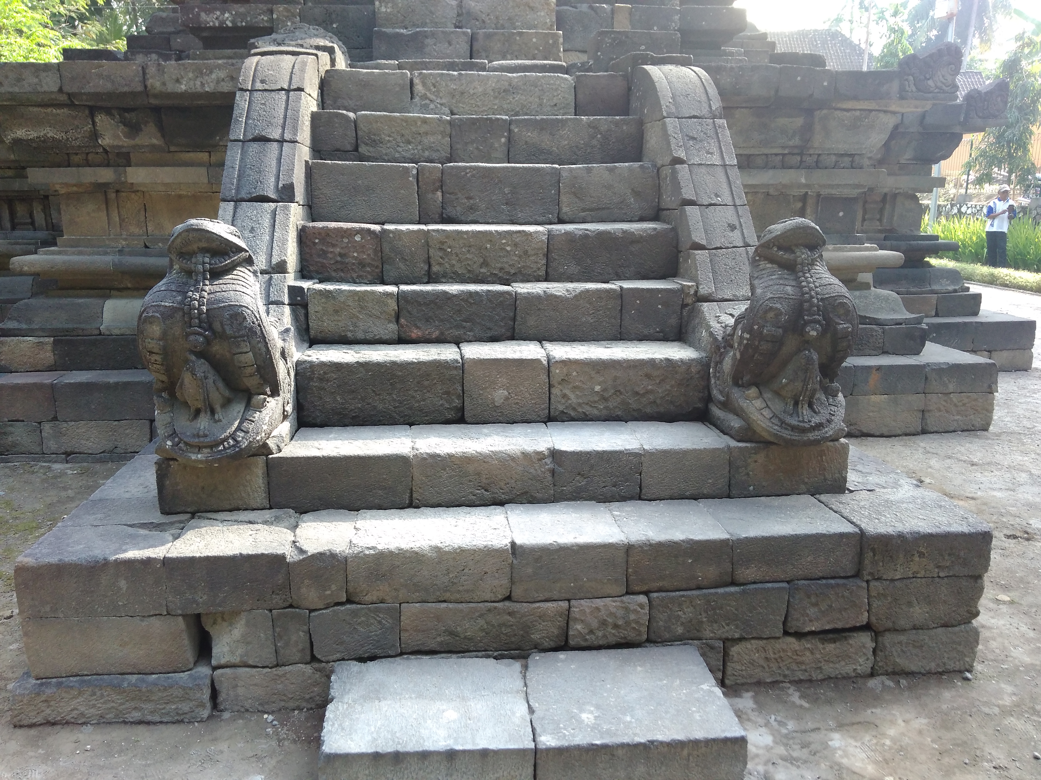 Stair of Candi Merak